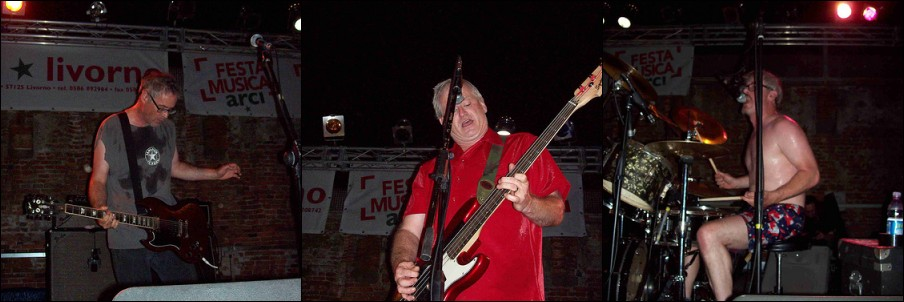 NoMeansNo at Livorno, Italy.